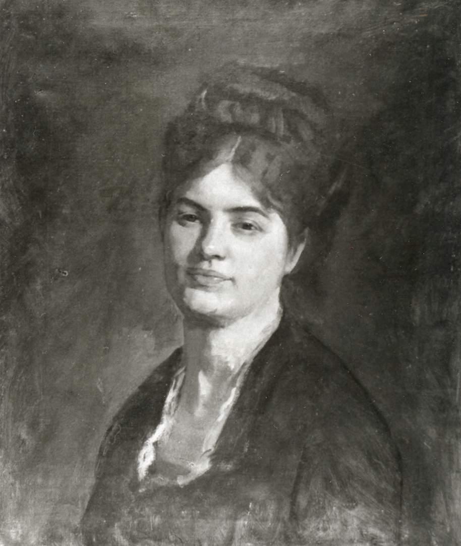 Romanian painter Nicolae Grigorescu's portrait of Luiza aka Zettina Urechia, wife of intellectual V. A. Urechia.